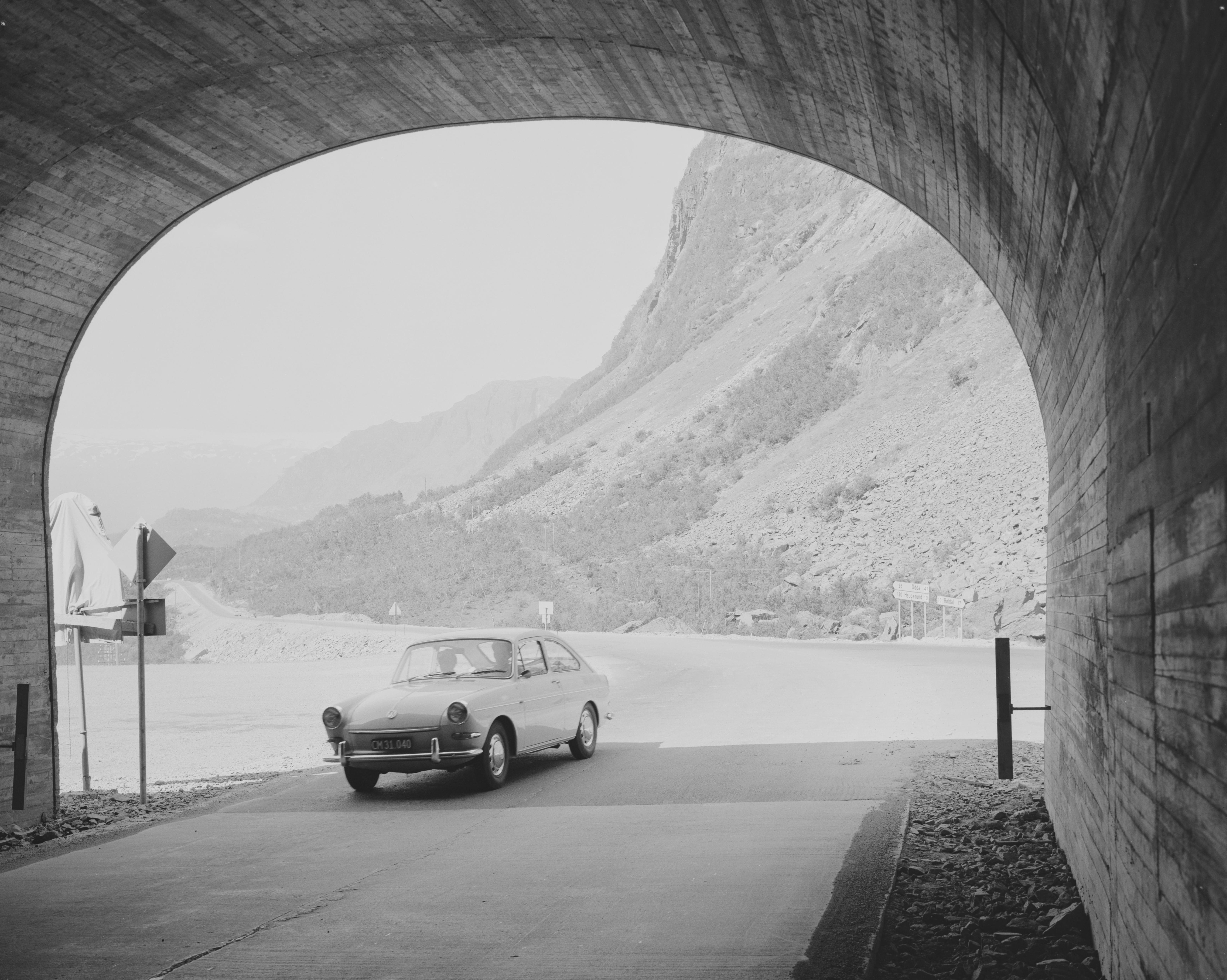 View from north entrance of Seljestadtunnelen